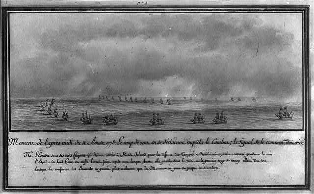 Situation in the afternoon of 11 August 1778; aquatint